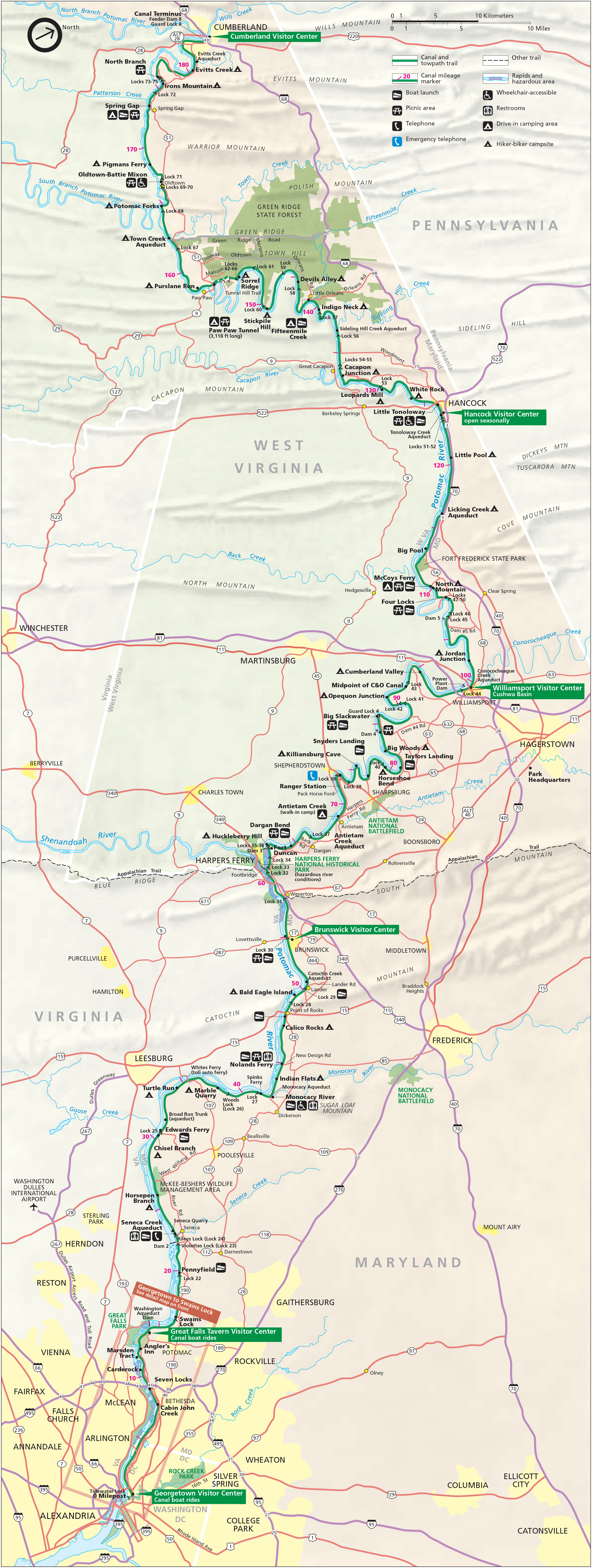 Map of the Chesapeake and Ohio Canal National Historical Park — along the former Chesapeake and Ohio Canal between Cumberland, Maryland, and Washington, D.C., USA.